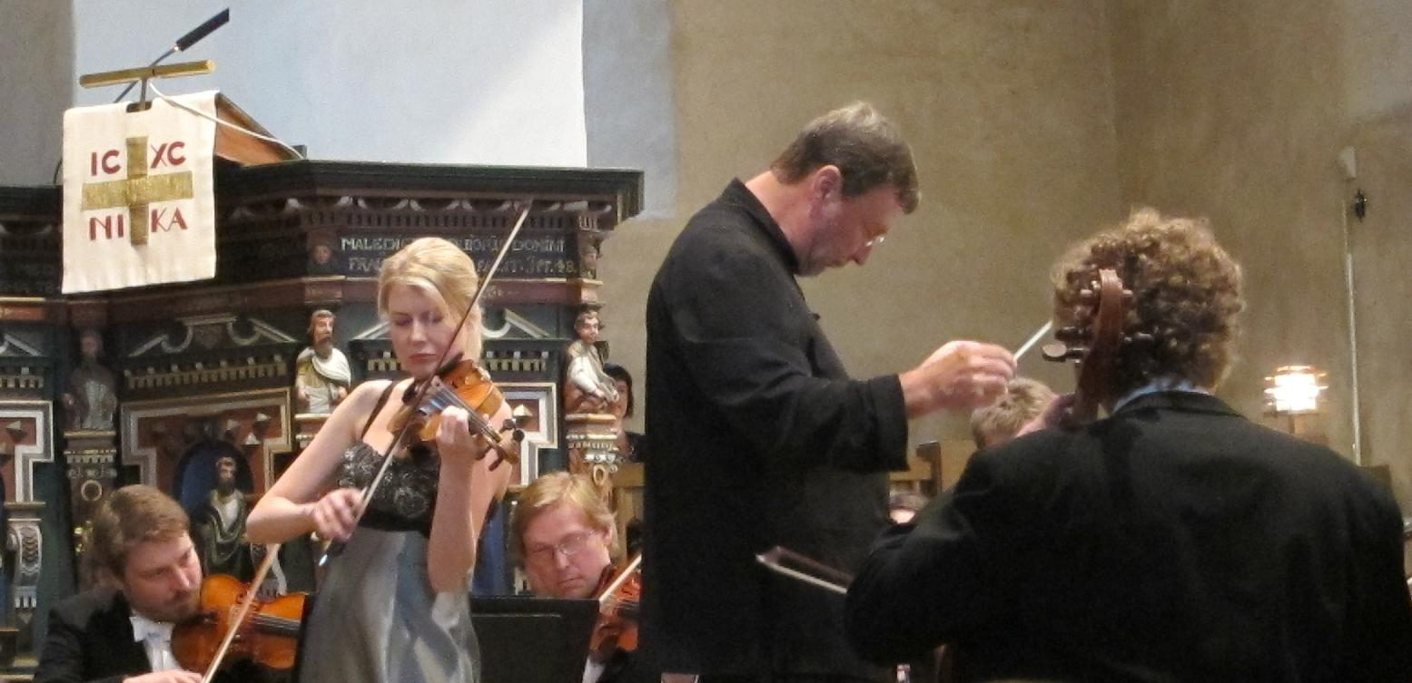 The Lahti Symphony Orchestra with conductor Okko Kamu and violinist Elina Vähälä performing at the Naantali Music Festival in Naantali Church, Naantali, Finland. Programme: Aulis Sallinen: Mauermusik Jean Sibelius: Violin Concerto in D minor, Op. 47 Johannes Brahms: Symphony No 2